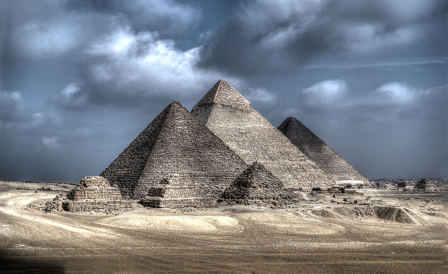 Giza Necropolis in High Dynamic Range أهرامات الجيزة